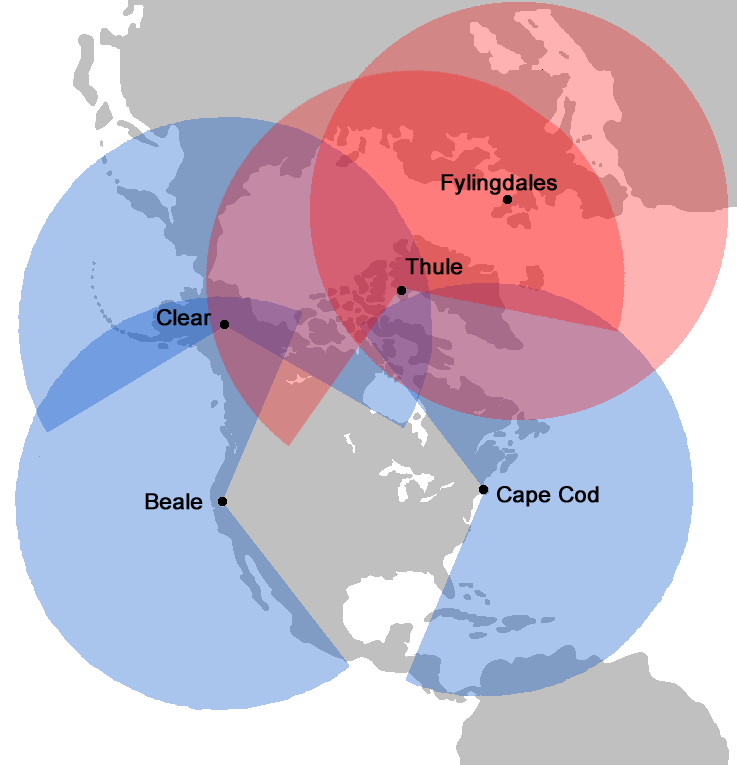 P16 & Myown.PAVE_PAWS. Add color & BMEWS.Blue:PAVE PAWS.Red:BMEWS